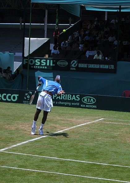 An Indian tennis player prepares to deliver a serve at the India-Pakistan Davis Cup, Brabourne Stadium - Mumbai (2006). (Cropped)